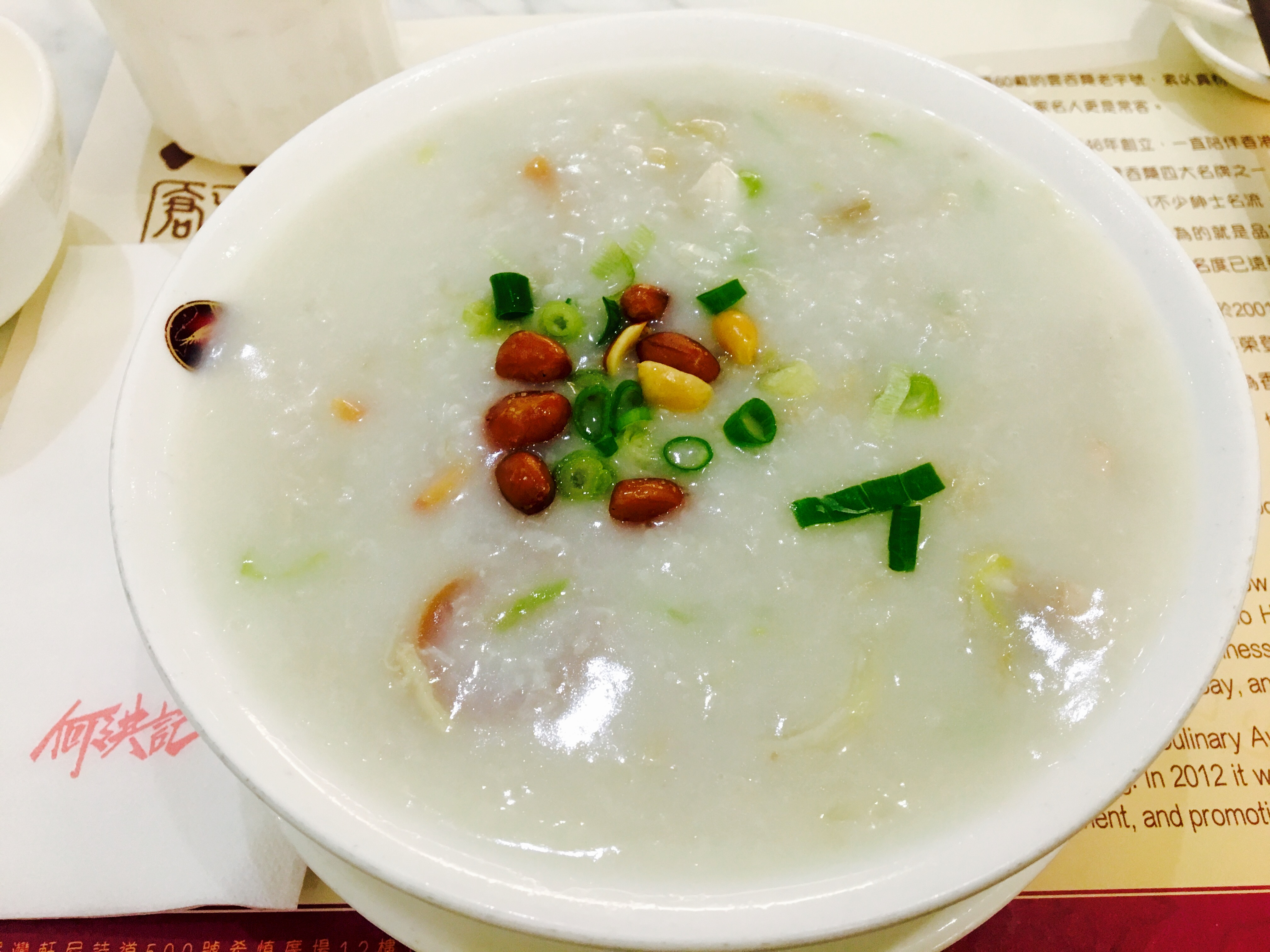 Cantonese Sampan Congee (Boat Congee)